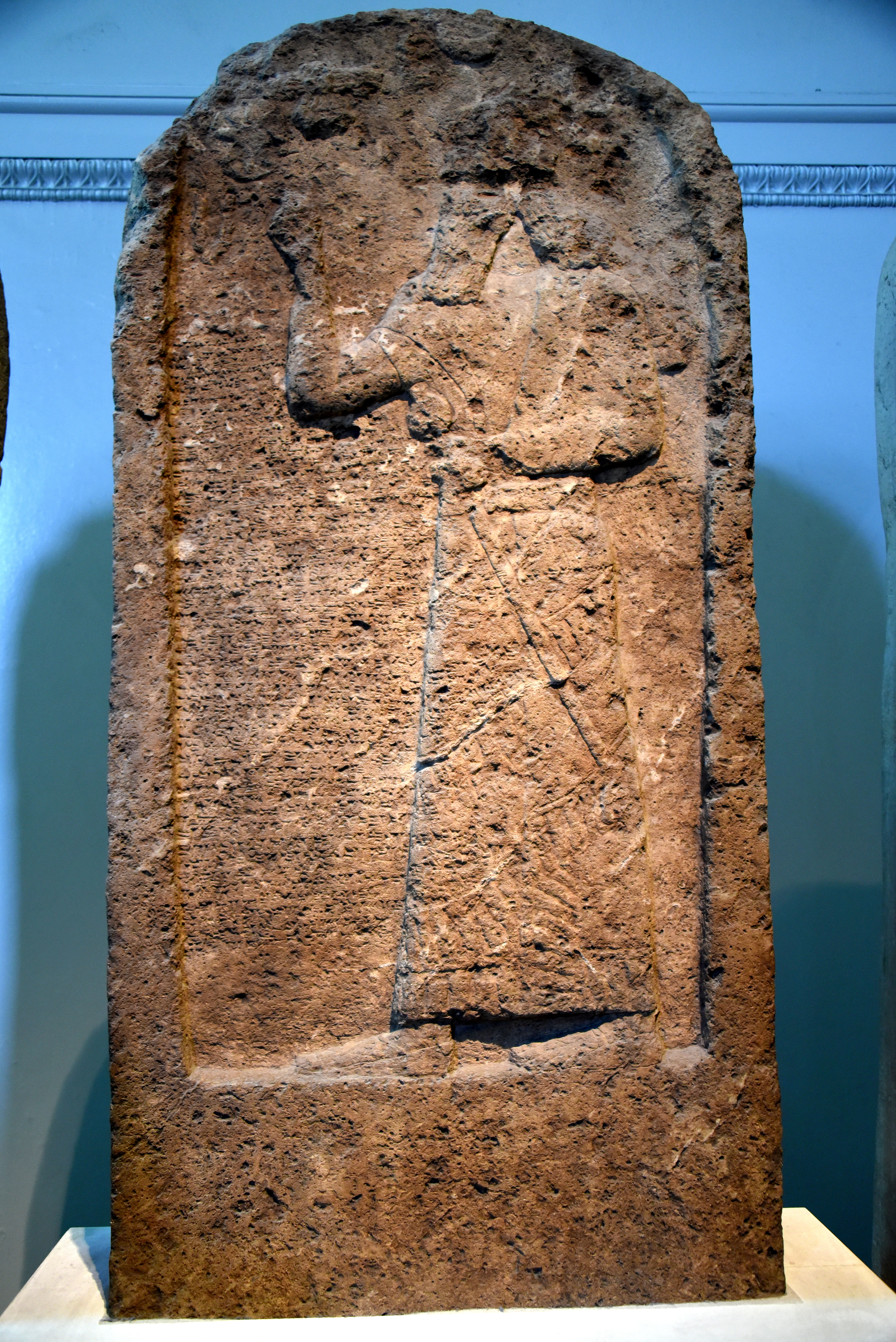 The Assyrian King Ashurnasirpal II worships in front of god symbols. The cuneiform inscription describes his military campaign in the year 879 BCE when the Assyrian army attacked the lands of the upper Tigris River, near Diyarbakir (modern southern Turkey). This stela was probably set up soon afterward in one of the main cities under the Assyrian rule. Neo-Assyrian era, 879 BCE, from Kurkh, near Diyarbakir. British Museum.